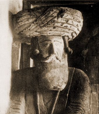 Gagik I of Armenia